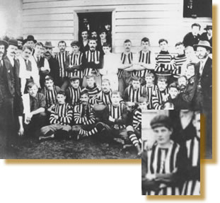 Early 1900s Brunswick Football Club squad. Brunswick, Australia